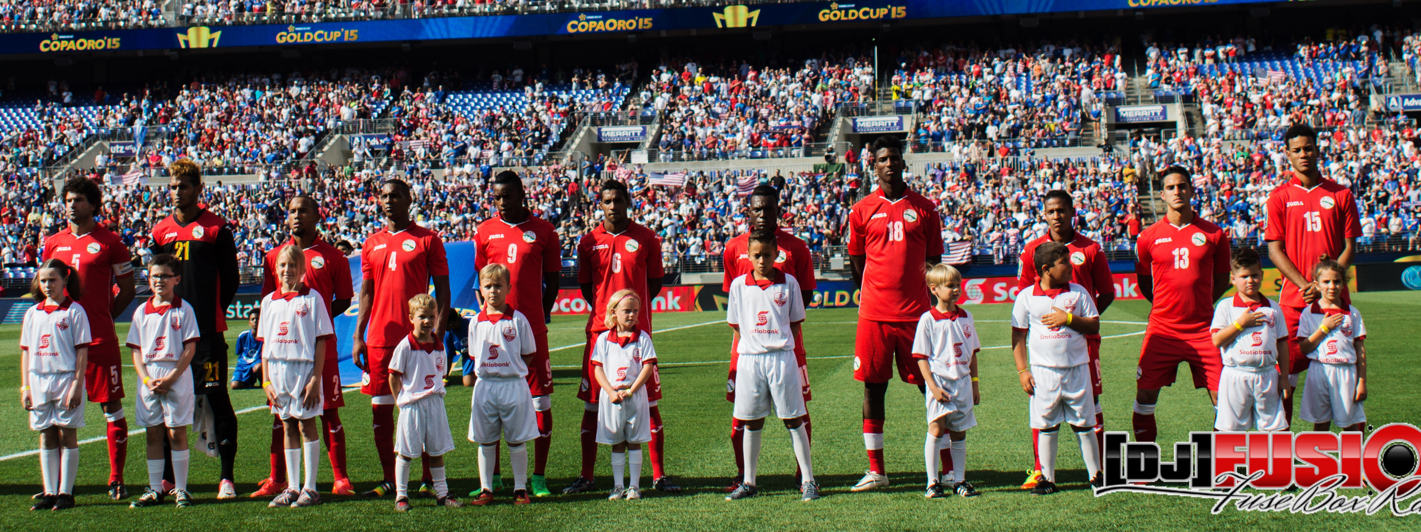 CONCACAF Quarter-Finals (USA vs Cuba) - Baltimore, MD (July 2015) Cuba national football team